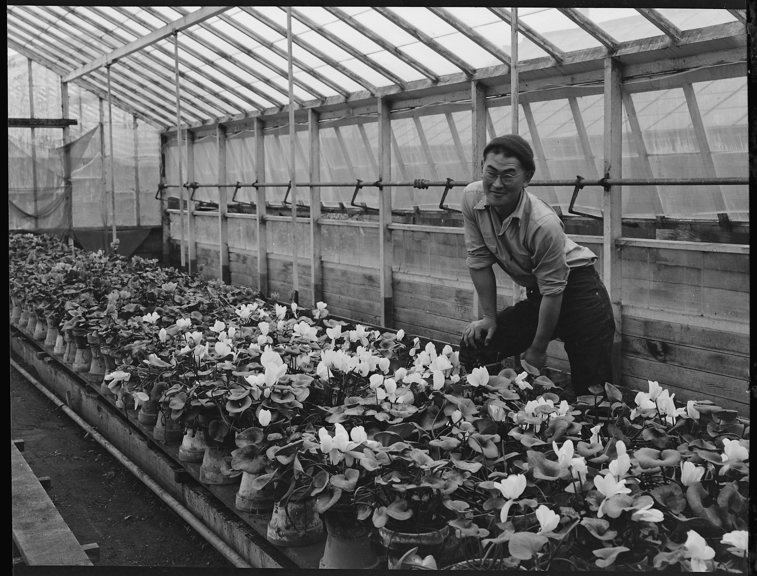 Scope and content: The full caption for this photograph reads: San Leandro, California. Greenhouse on nursery operated, before evacuation, by horticultural experts of Japanese ancestry. Many of the Nisei (born in this country) attended leading agricultural colleges such as that at Cornell. Evacuees will be housed at War Relocation Authority centers for the duration.